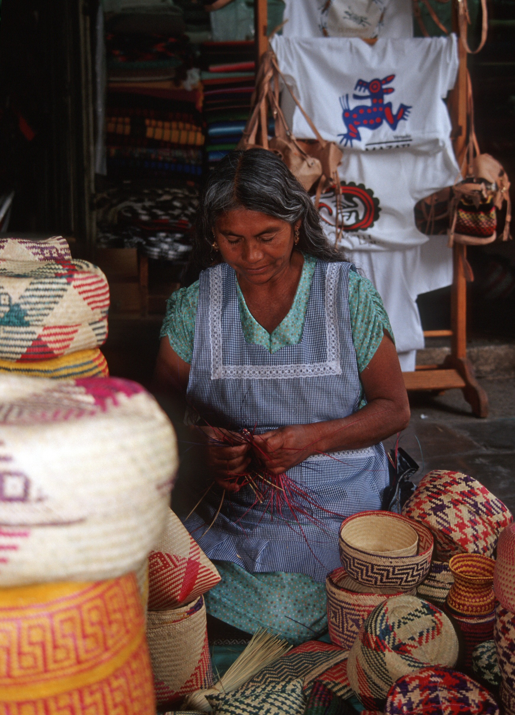 Basket weaver at the Benito Juarez market in the city of Oaxaca, Mexico